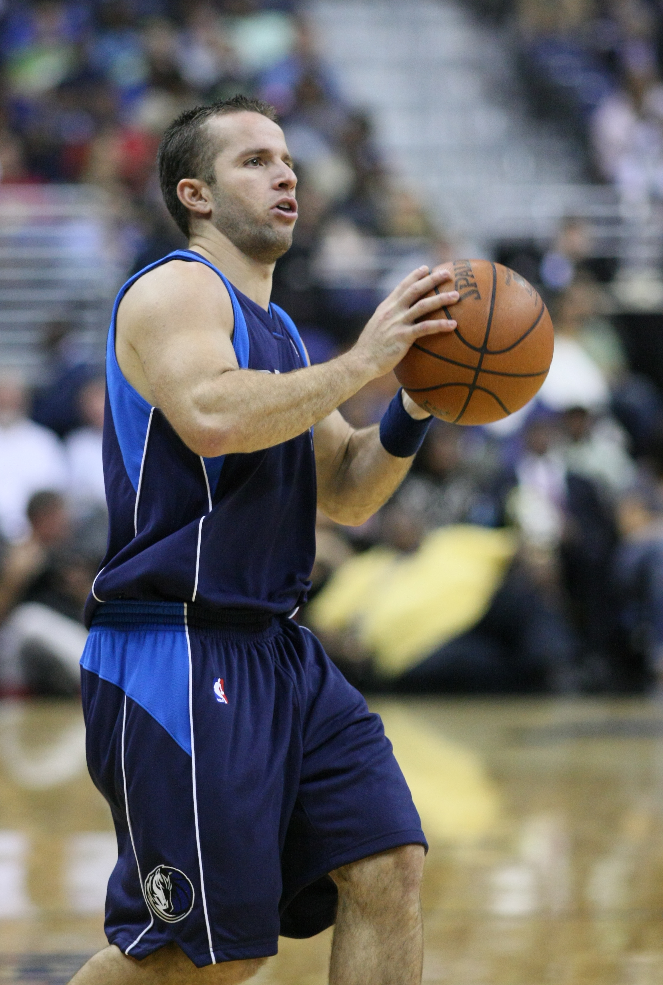 Washington Wizards v/s Dallas Mavericks October 9, 2009 at Verizon Center in Washington, D.C.